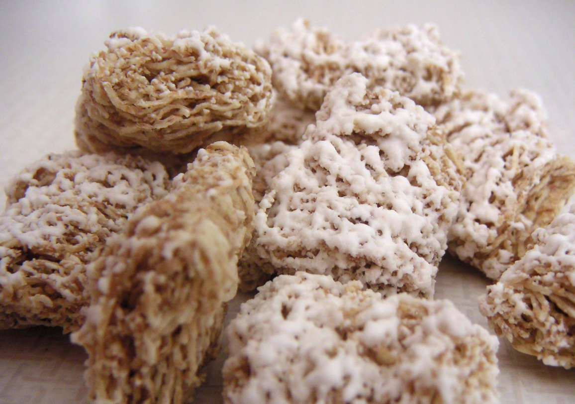 This is a picture that I took of Frosted Mini Wheats.